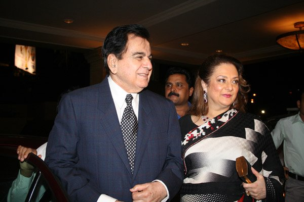 Lux Inspiring Beauty by Omar Qureshi and Times Of India